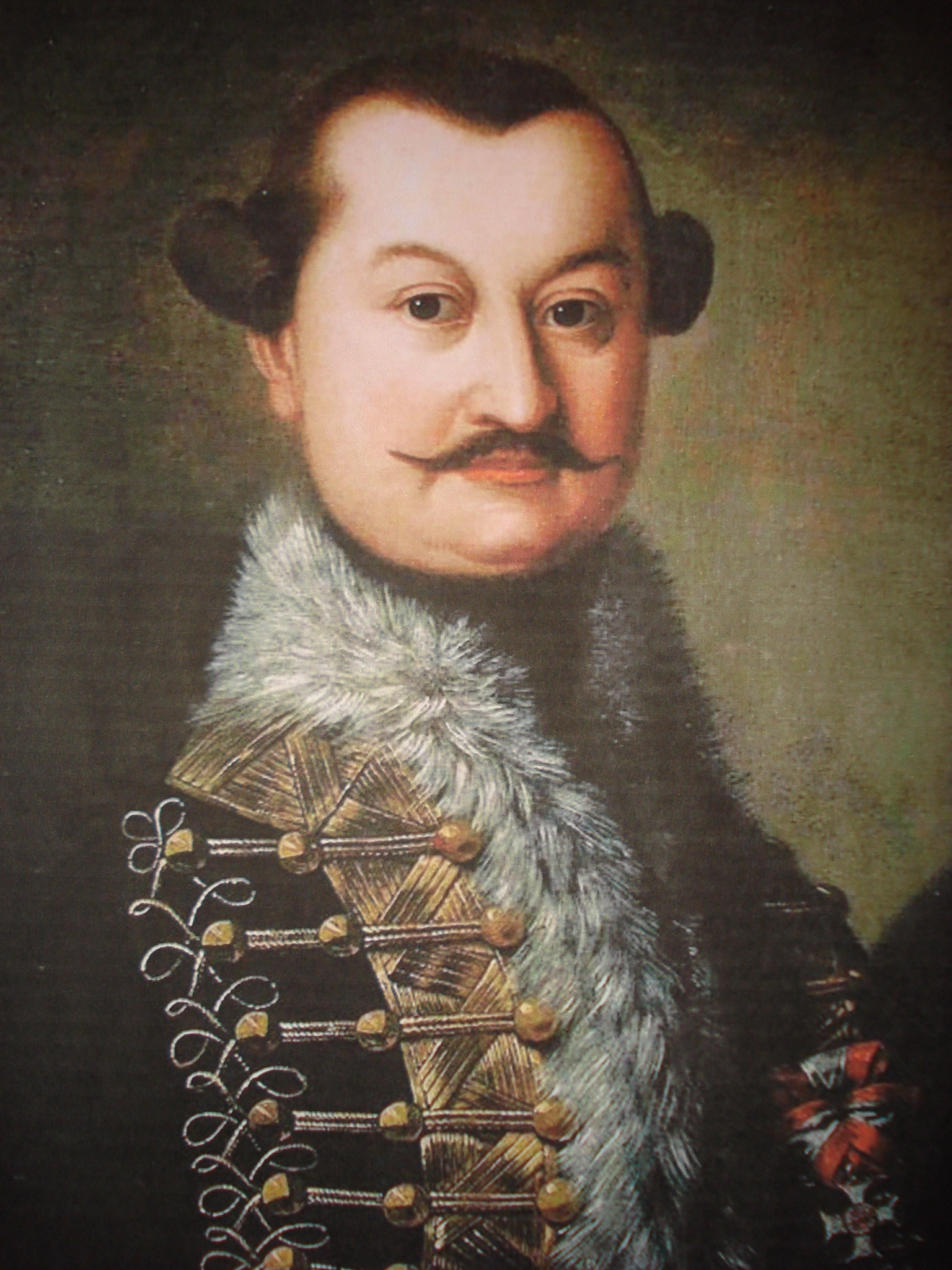 Baron Martin Knežević (Knezhevich) (1708-1781), Croatian nobleman and general of the Habsburg Monarchy imperial armyHrvatski: Martin barun Knežević (1708-1781), hrvatski plemić i general carske vojske Habsburške Monarhije